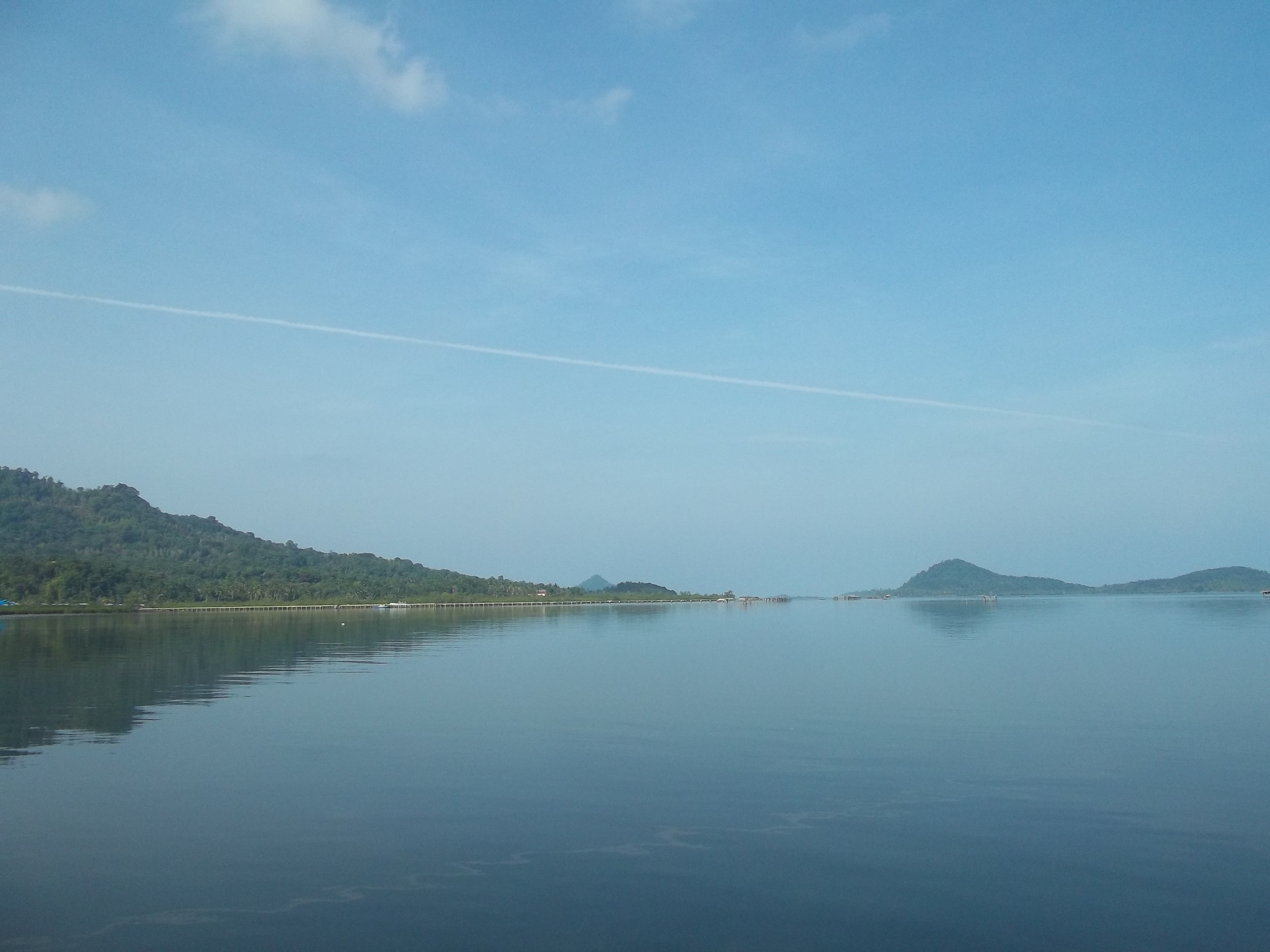 Scenery around Serasan and Batu Berian